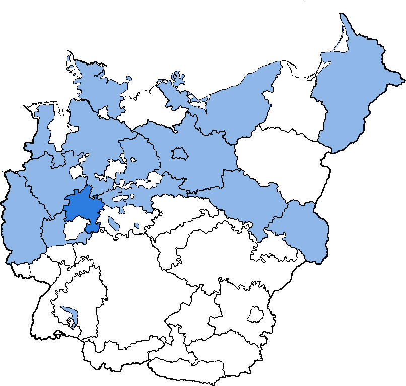 Location of the Province of Kurhessen in the Free State of Prussia